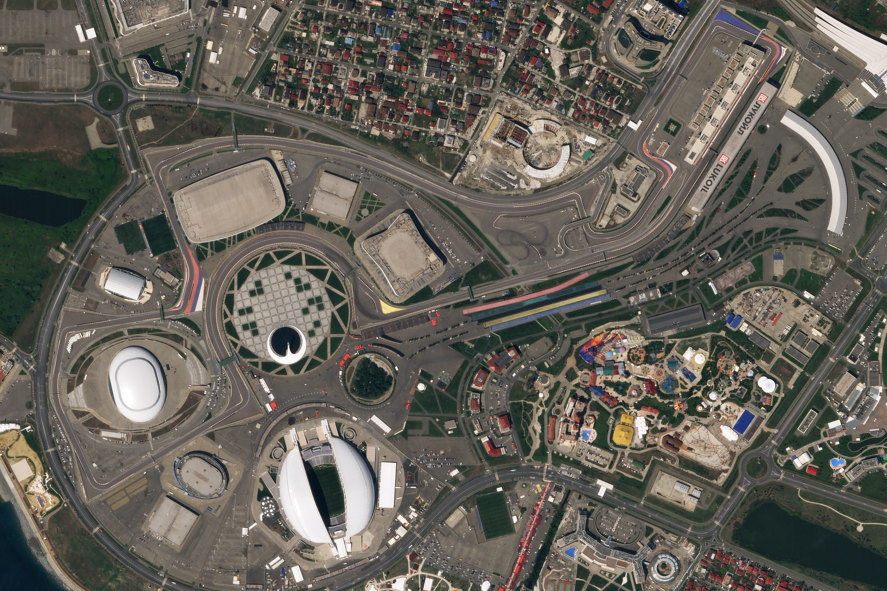 The Sochi Autodrom, a 5.848 km Formula One permanent race track in the Black Sea resort town of Sochi in Krasnodar Krai, Russia.and home to the Russian Grand Prix. Image taken on July 10, 2018, by a Planet Labs SkySat satellite.